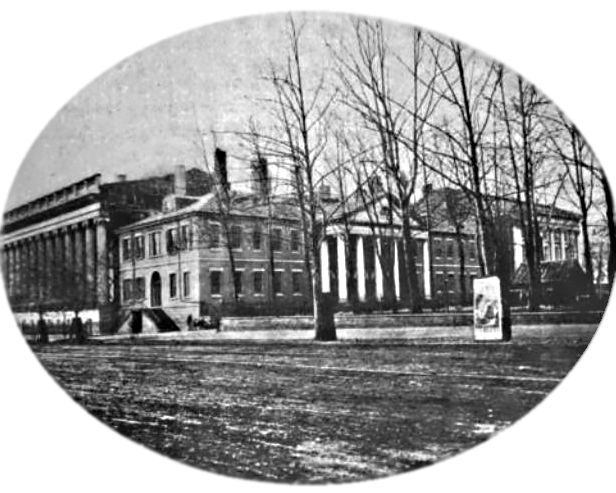 Caption: "The old state department building in Washington, as it was in 1865. (Where the Alaskan treaty was signed.)"